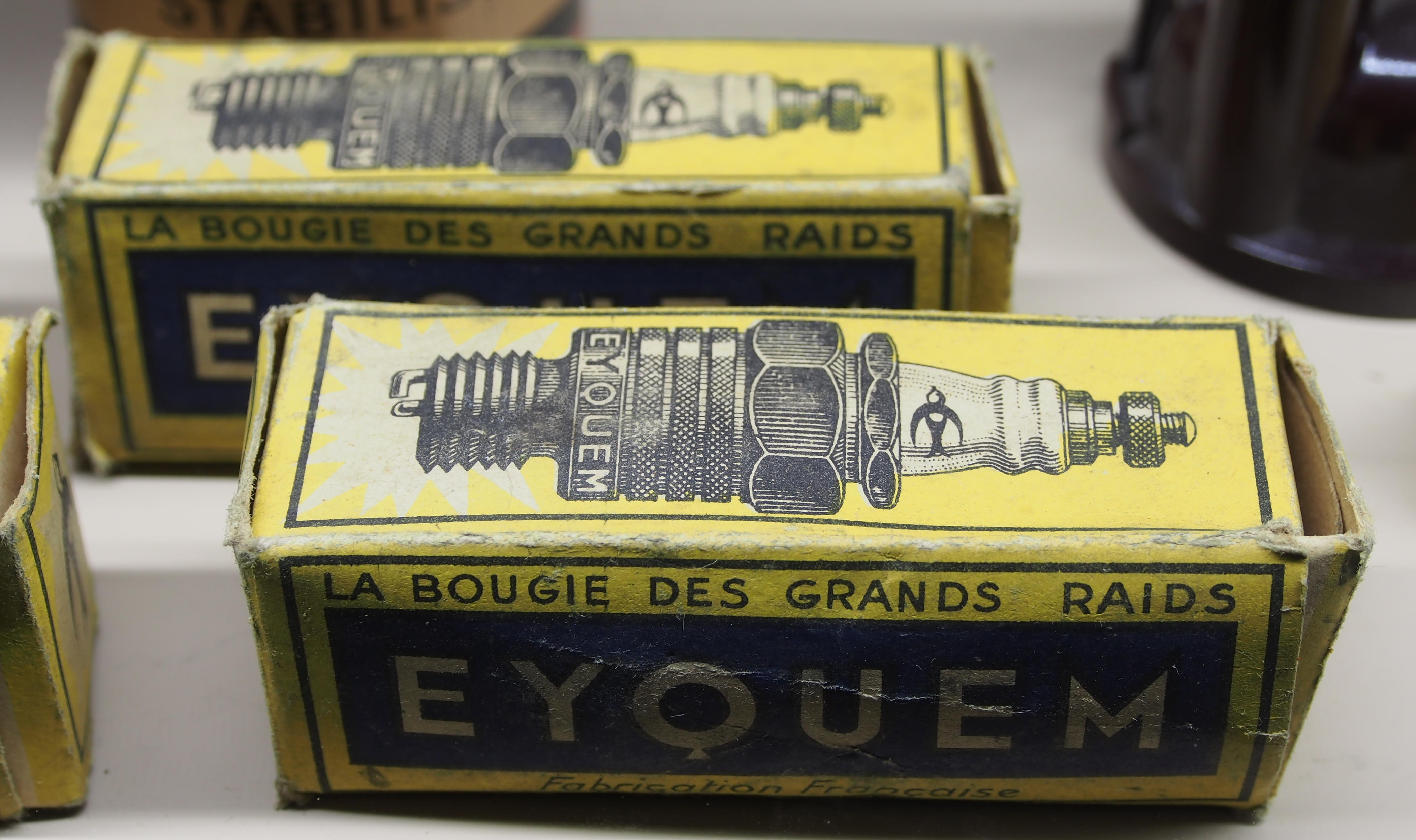 Photographed at the Louwman museum.